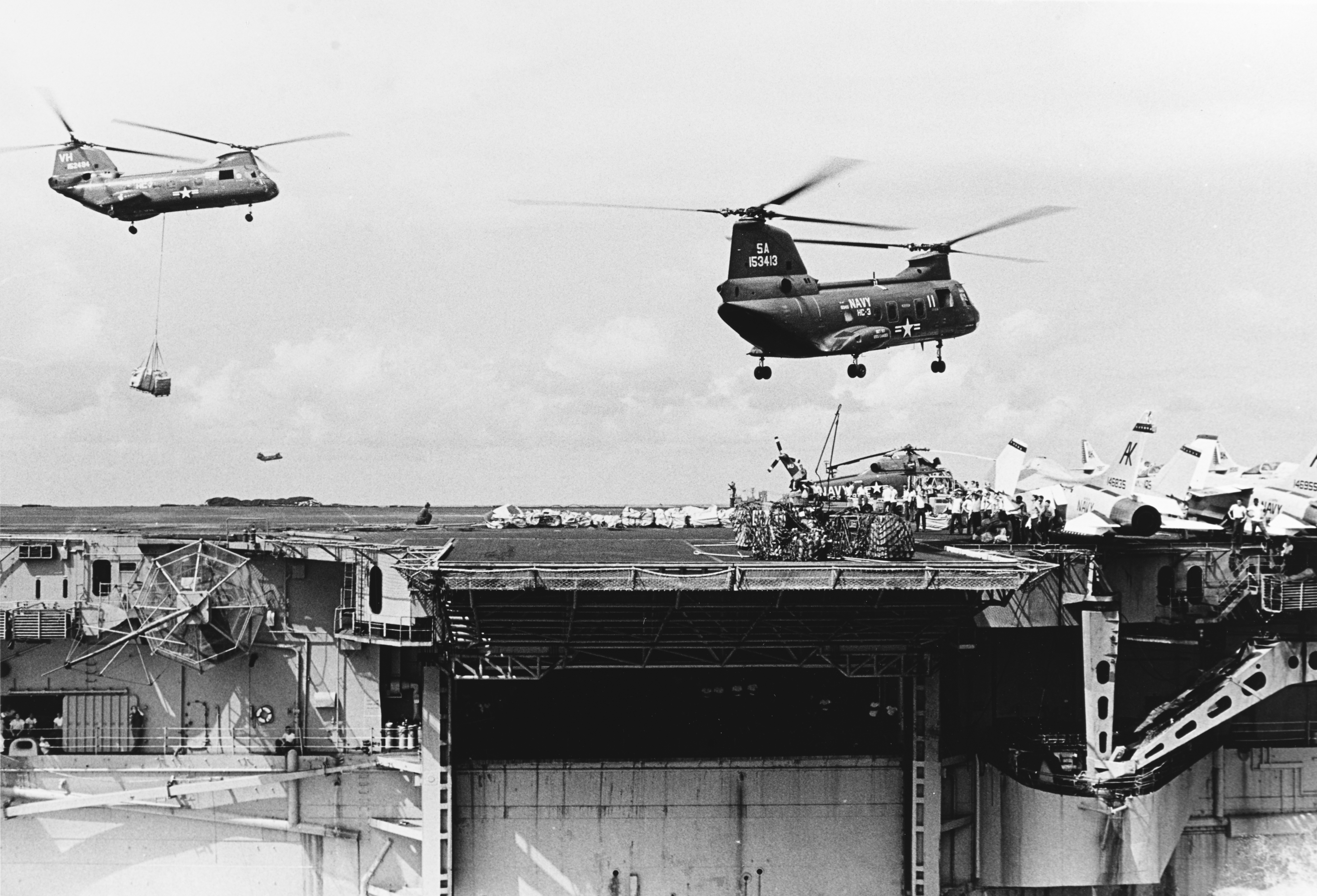 Two Boeing-Vertol UH-46D Sea Knight helicopters bring supplies to the U.S. Navy aircraft carrier USS Intrepid (CVS-11) in the South China Sea, December 1968. The helicopter to the right (BuNo 153413) was attached to Helicopter Support Squadron 3 (HC-3) "Packrats" from the fast combat support ship USS Camden (AOE-2). The helicopter to the left (BuNo 152494) was attached to HC-7 "Seadevils" from the combat stores ship USS Mars (AFS-1). Although designated as an anti-submarine warfare carrier (CVS), Intrepid made three deployments to Vietnam as an attack carrier with assigned Attack Carrier Air Wing 10 (CVW-10), her last deployment lasted from 4 June 1968 to 8 February 1969.